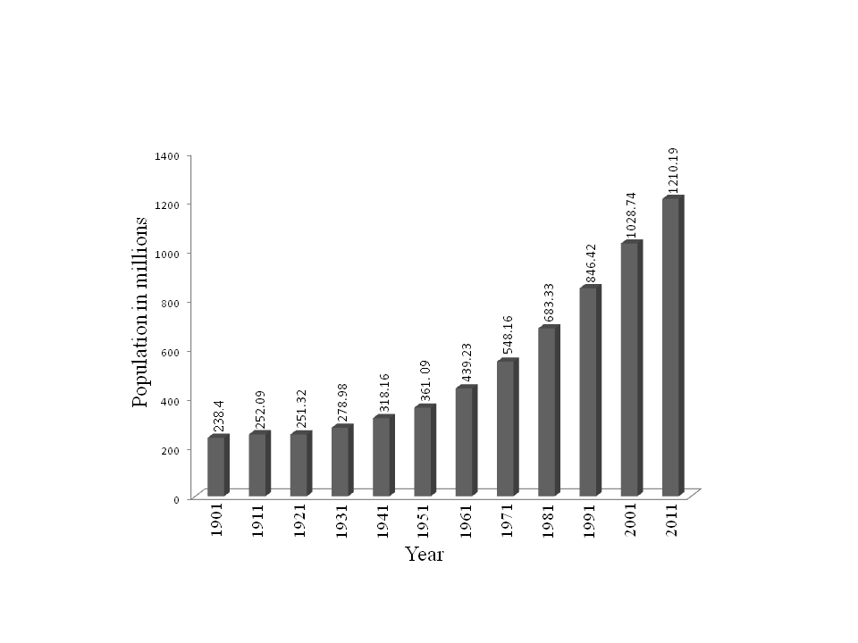 Decadal increase of population of India from 1901 to 2011. used information from this website (